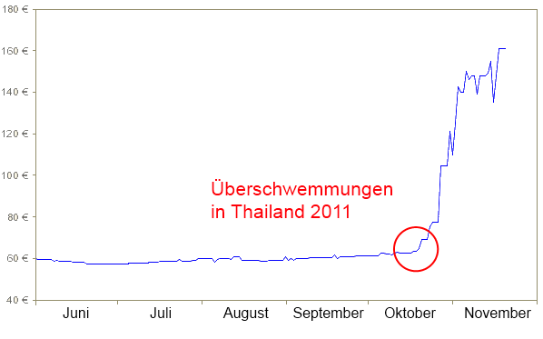 HDD prices after the flood in Thailand 2011